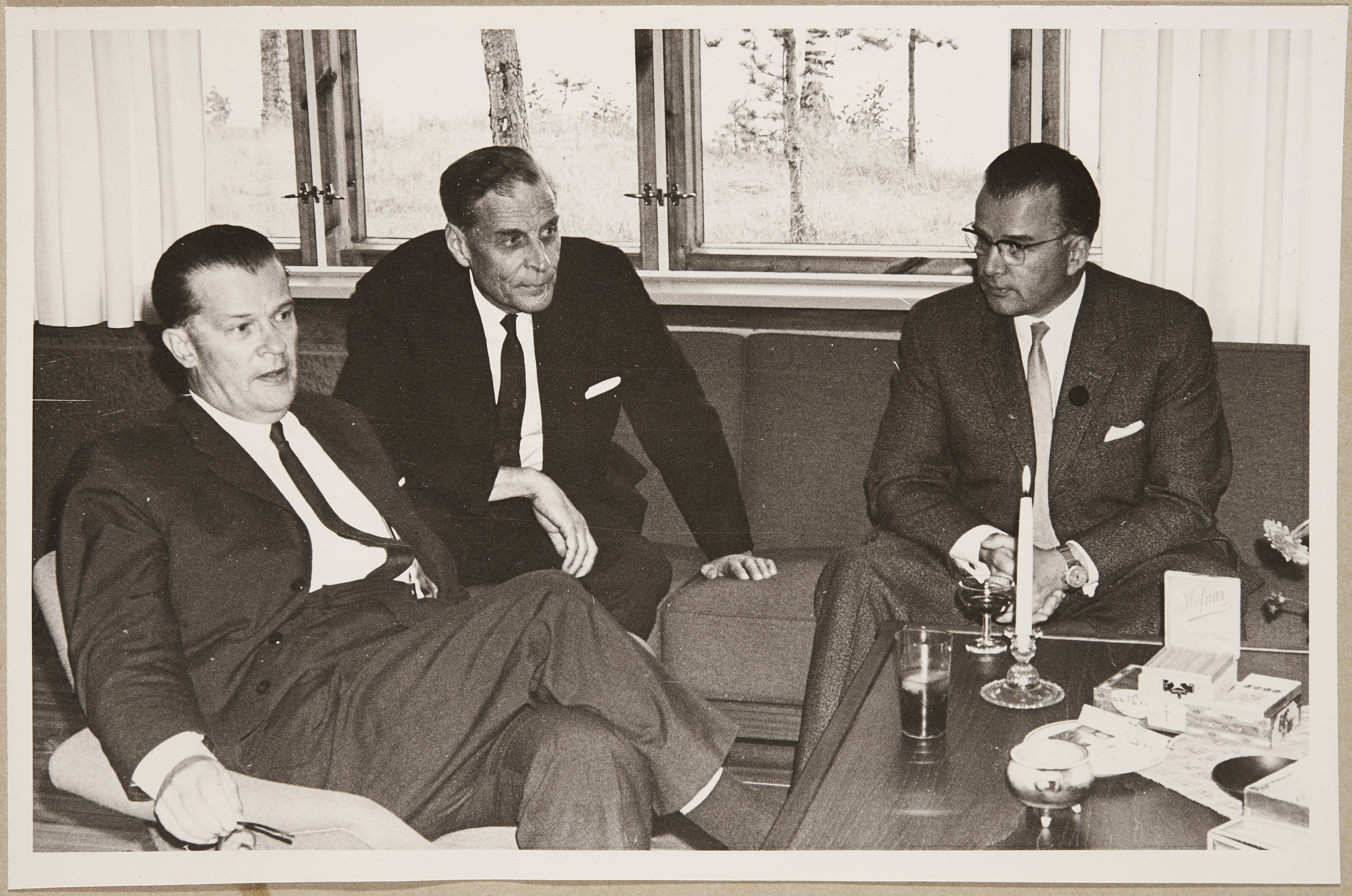 Photograph of three Finnish business executives at Lahnaslampi mine: Tauno Angervo, Olli Paloheimo and Mikko Tähtinen.